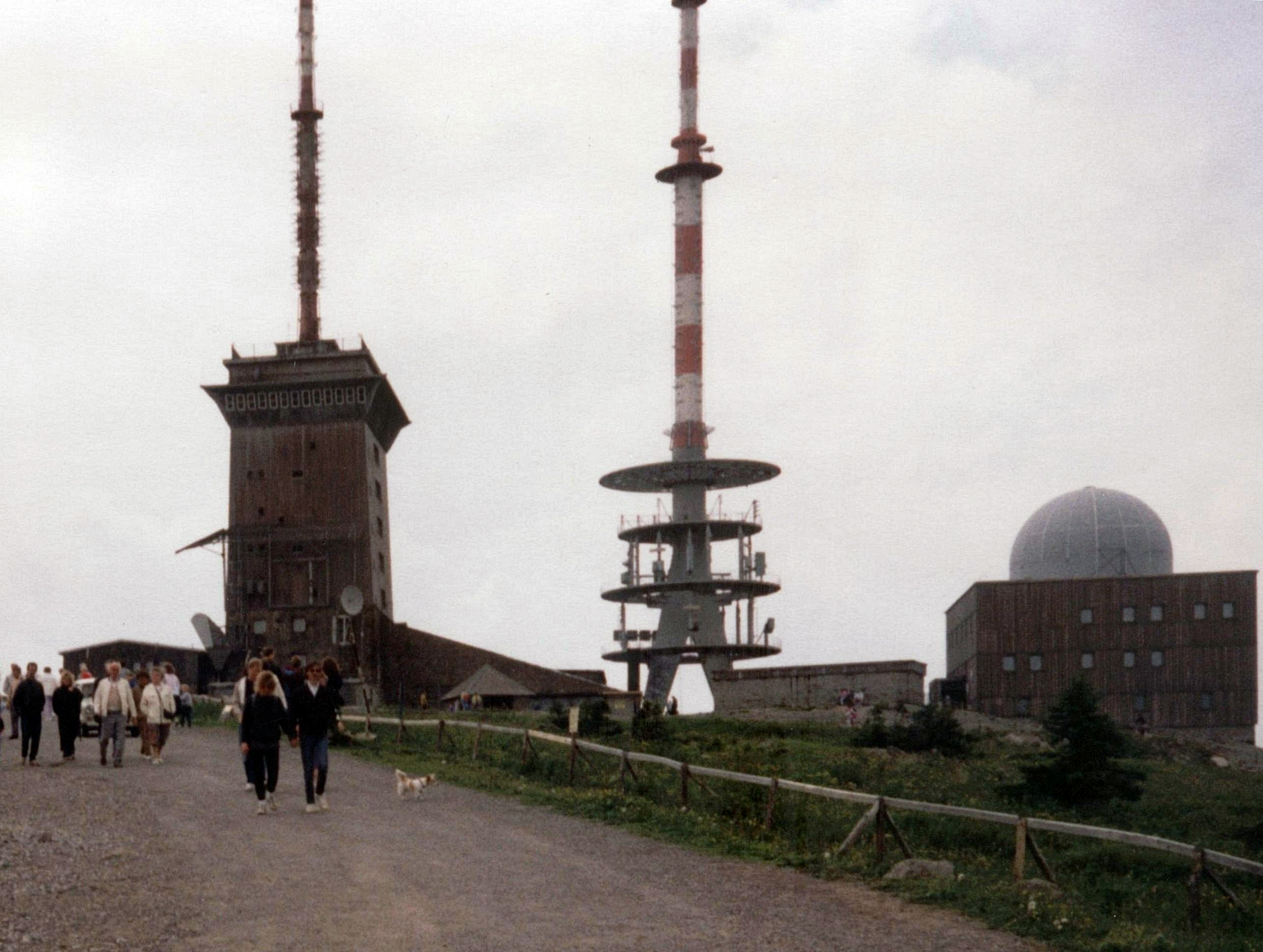 Germany / Harz : mountain Brocken, transmitters